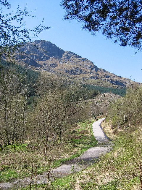 Old Military Road leading to Rest and be Thankful, Argyll. The old military road built in the 18th century was largely replaced by a new road in the 1930s